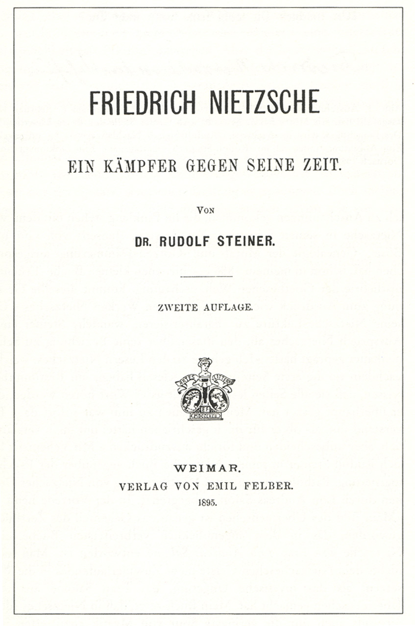 front cover of Friedrich Nietzsche - Ein Kämpfer gegen seine Zeit by Rudolf Steiner, Second Edition 1895